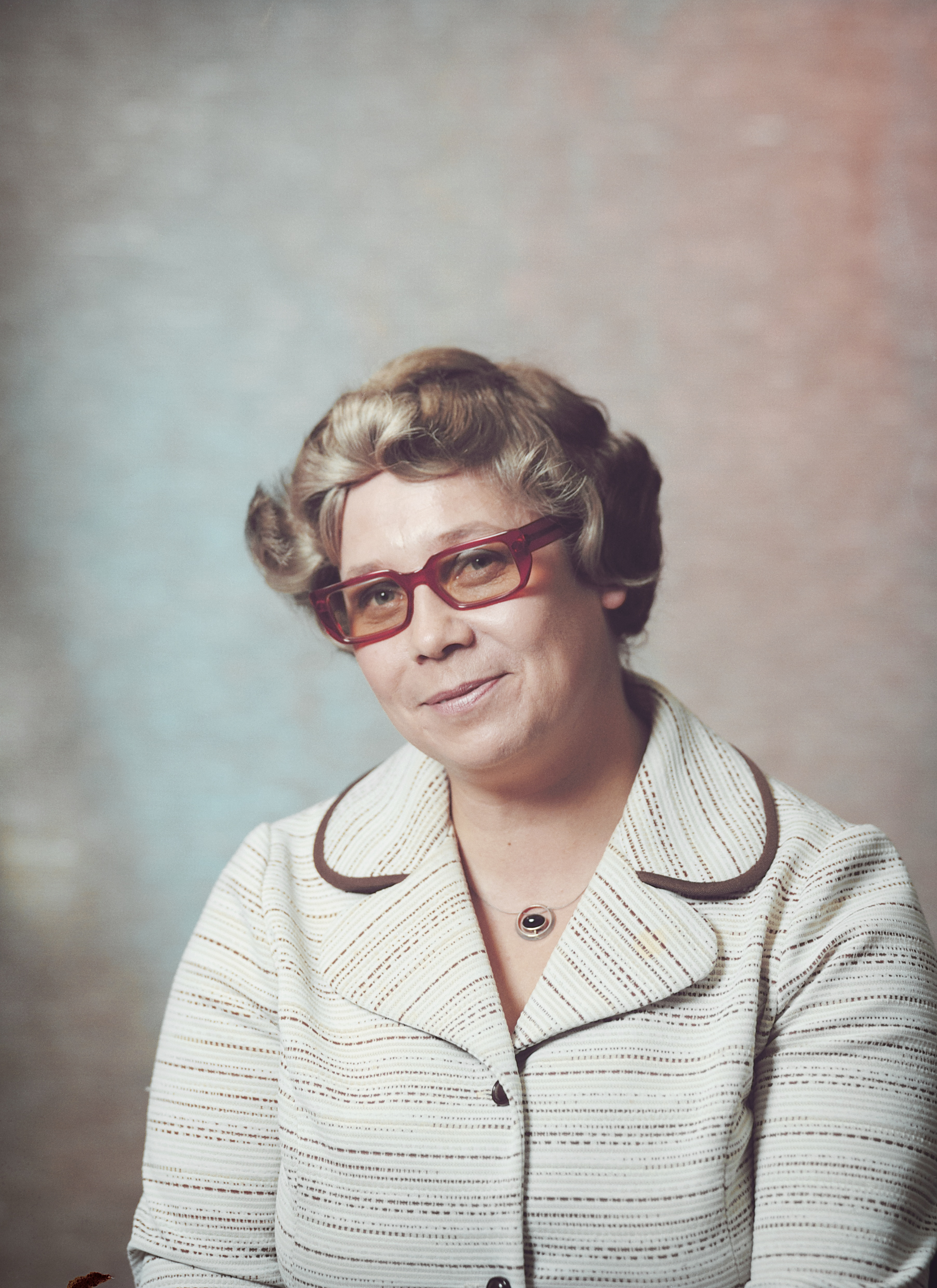 Photograph of the Finnish professor of clothing and textile arts Pirkko Anttila (1929–).